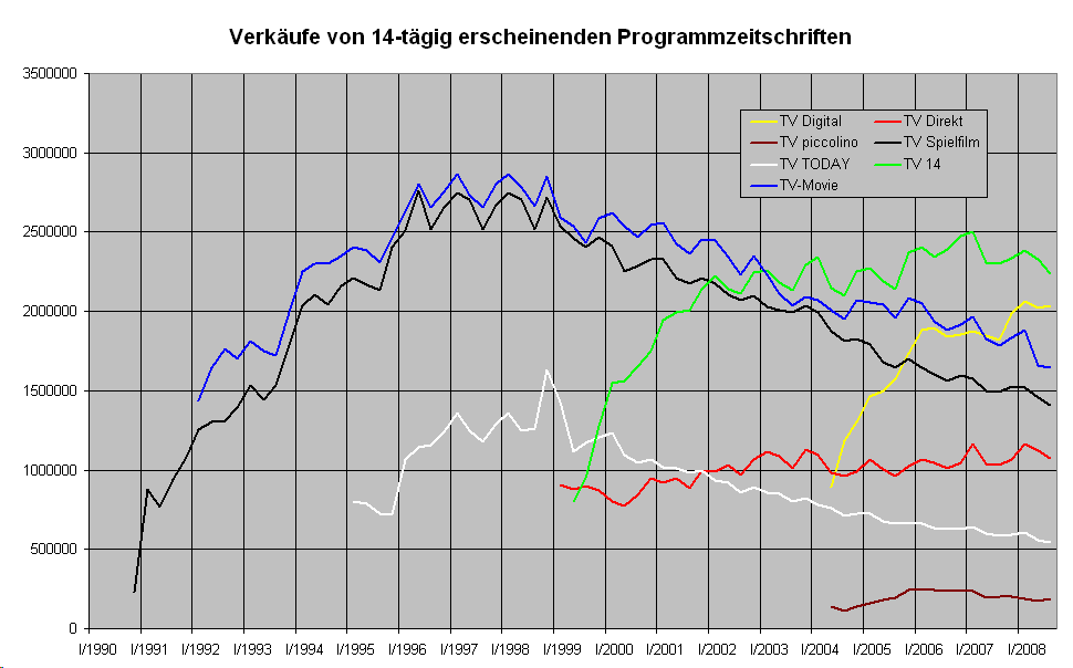 Sells of the 14-day published listings magazines in Germany.